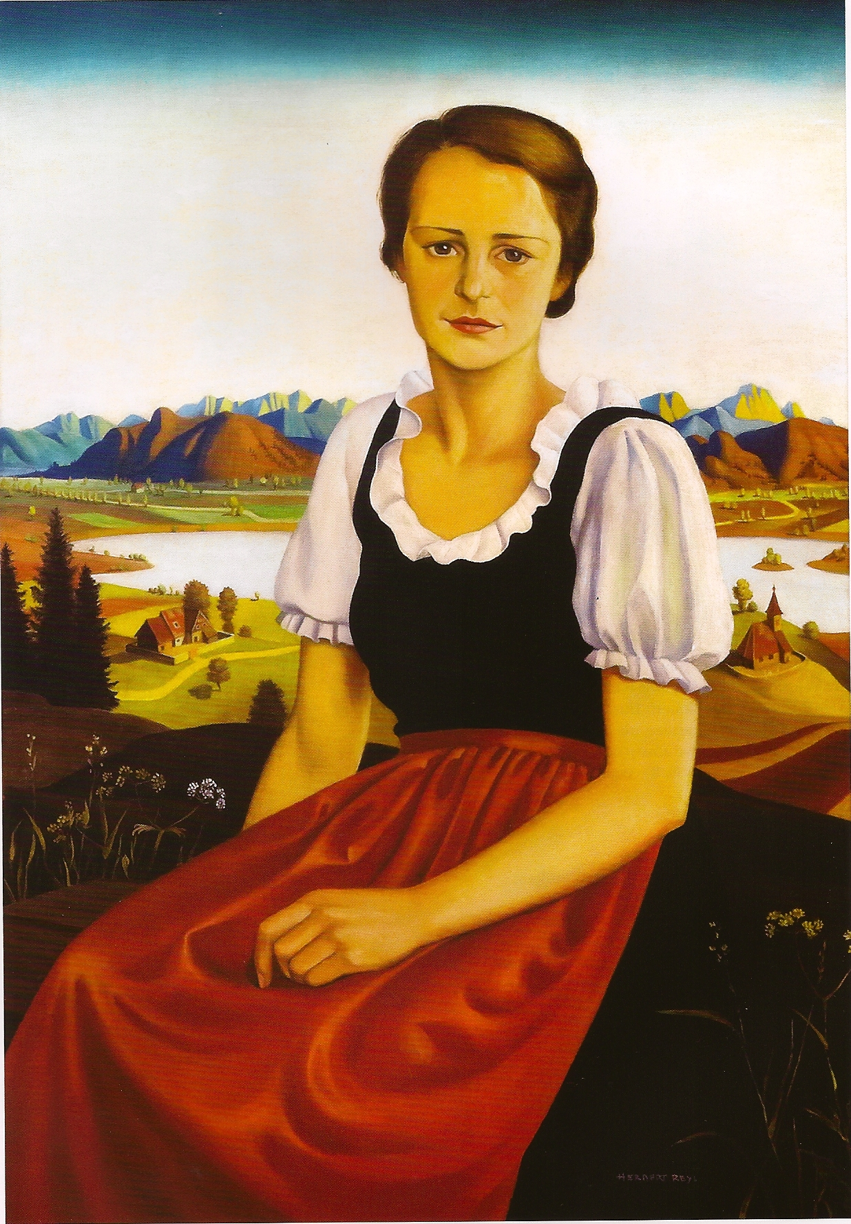 Portrait of a girl in front of a mountain-landscape